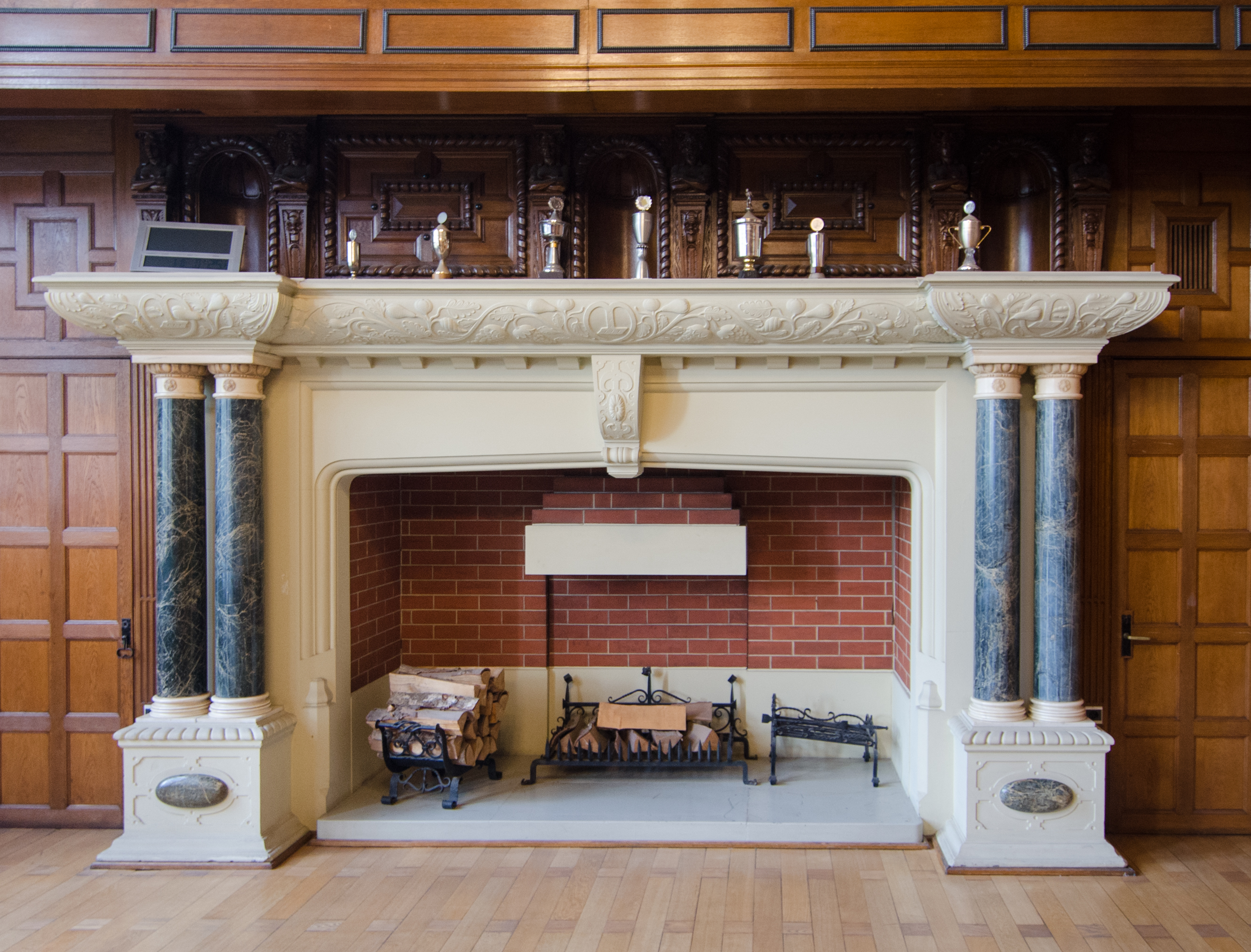 Duisburg (North Rhine-Westphalia, Germany) – borough Hamborn, district Marxloh – Old Thyssen head office – representative trade hall – large fireplace